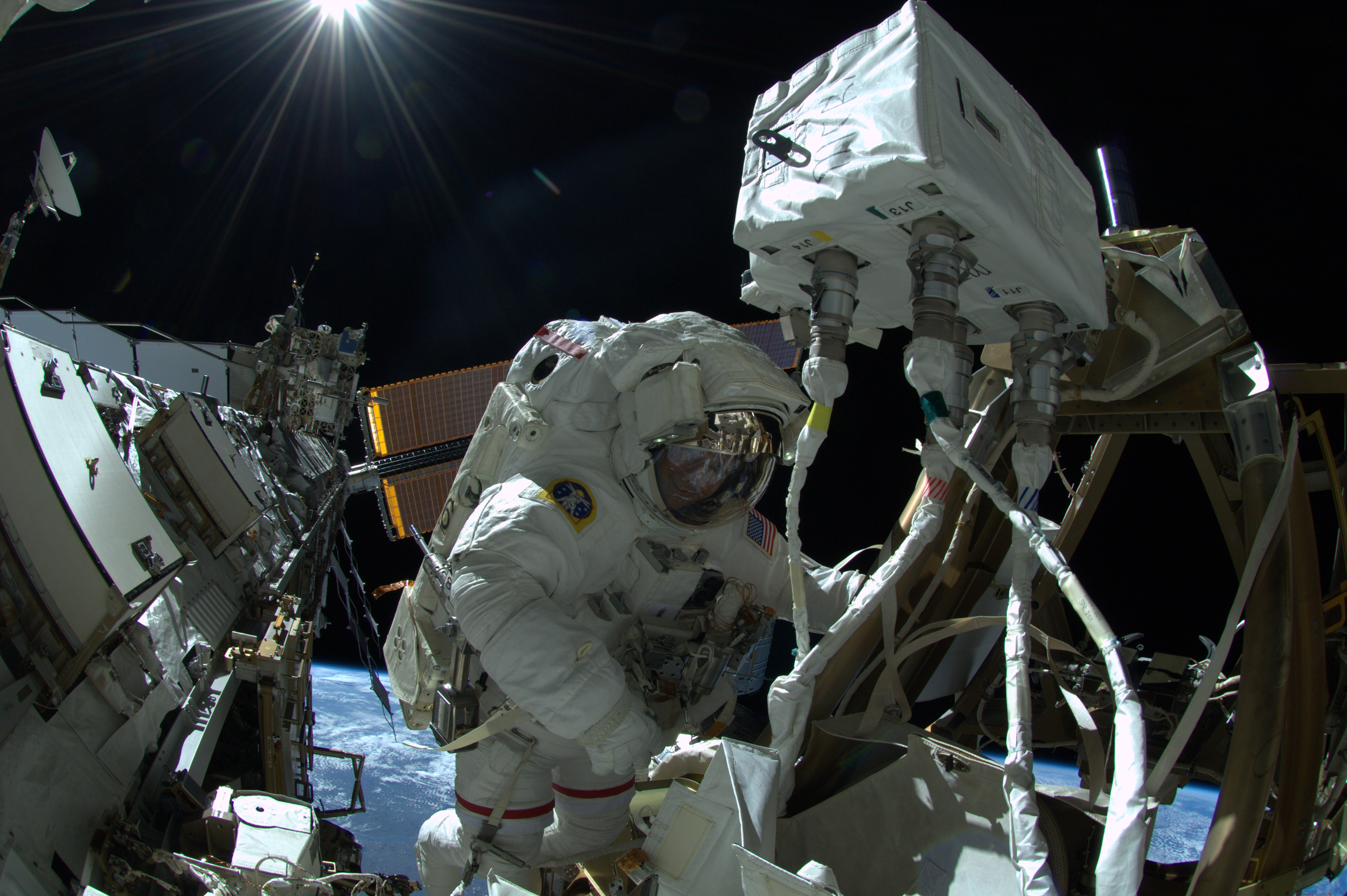 Reid Wiseman during U.S. EVA #27